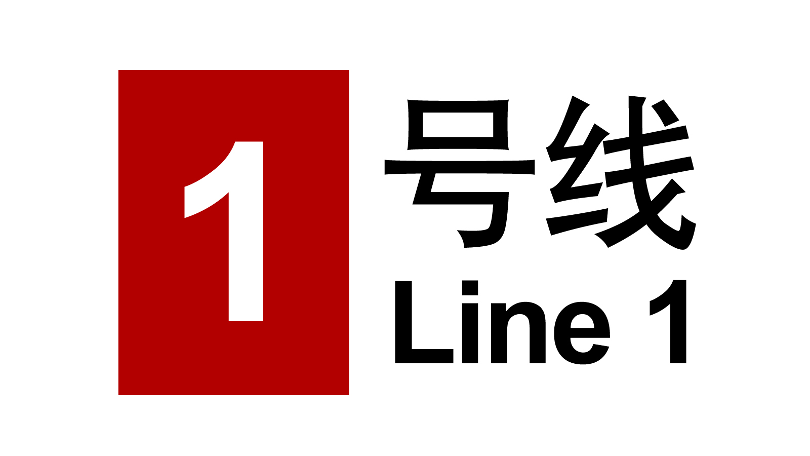 Harbin Metro line 1 logo